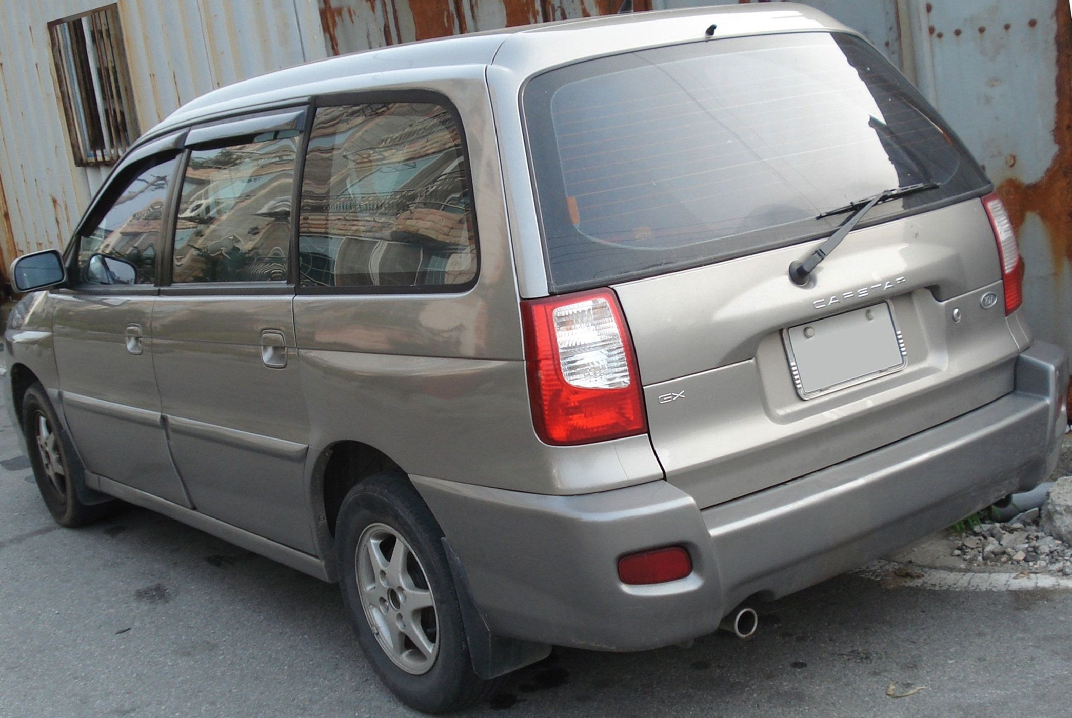 Kia Carstar